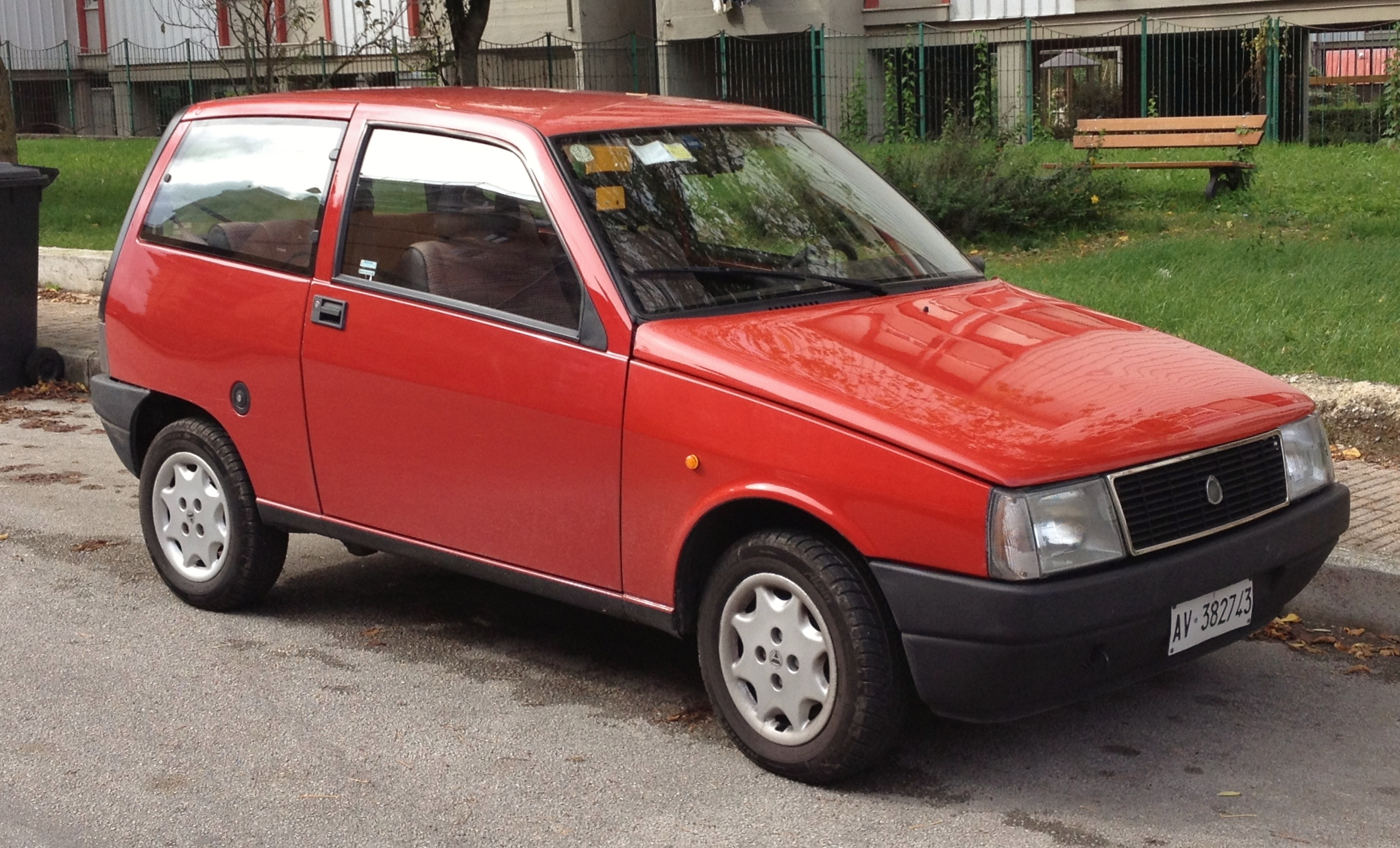 Autobianchi Y10 1.1 Fire i.e. front in Avellino